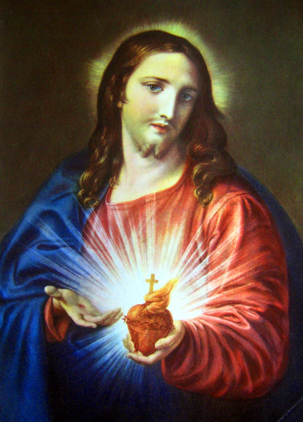 The most famous picture of the Sacred Heart of Jesus, by Pompeo Batoni, Rome, Church of the Gesù. My own work, for public use and domain.